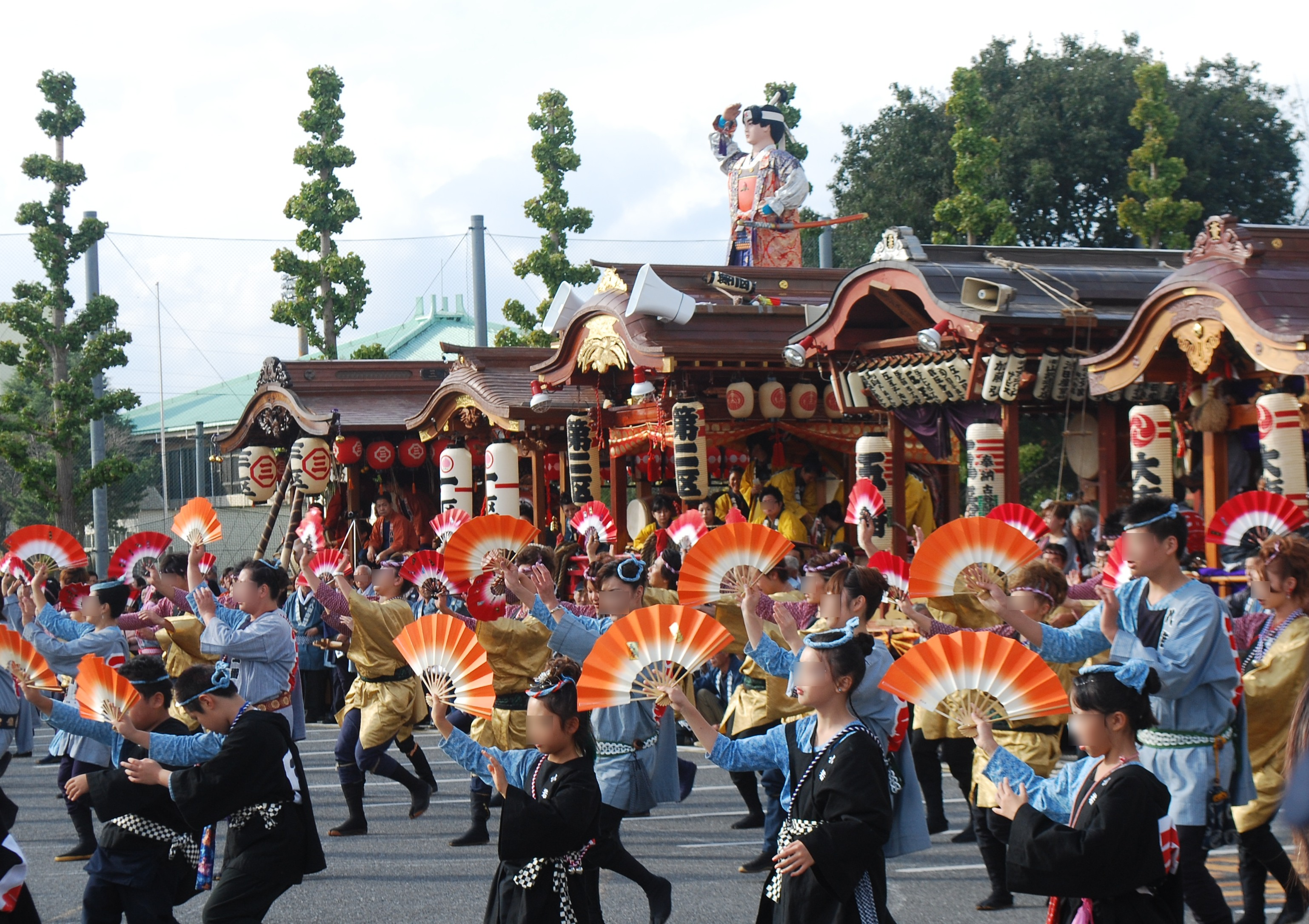 Yachimata-festival,Yachimata-city,Japan